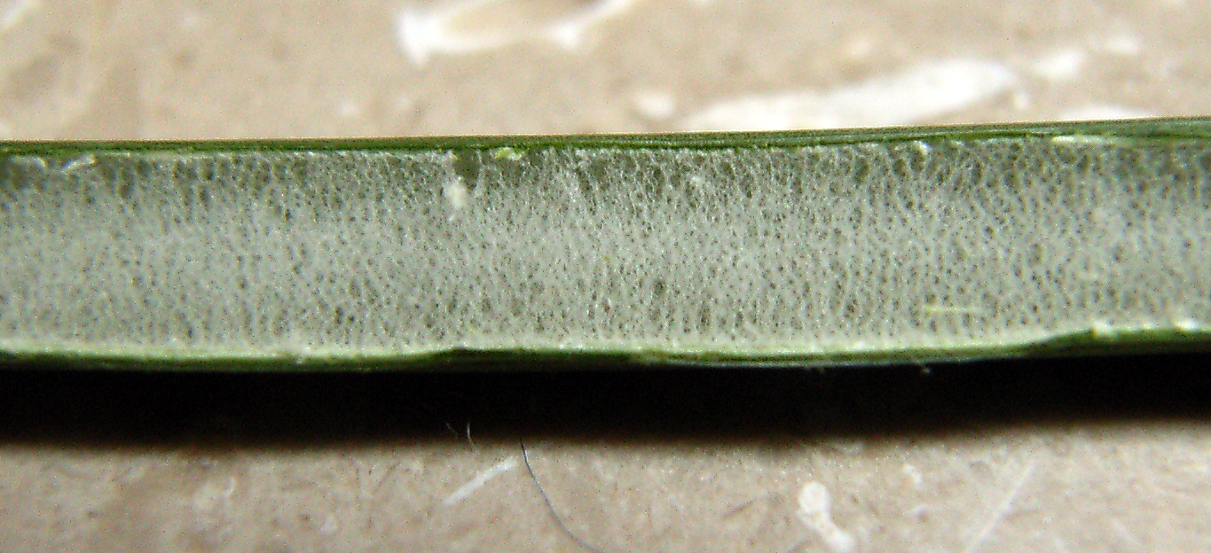 Mark Juncus effusus